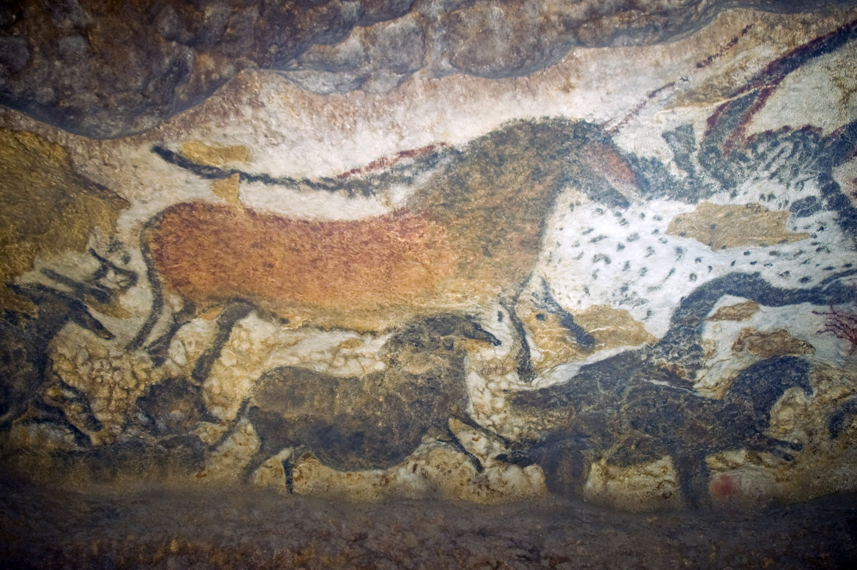 Reproductions of some Lascaux artworks in Lascaux II.